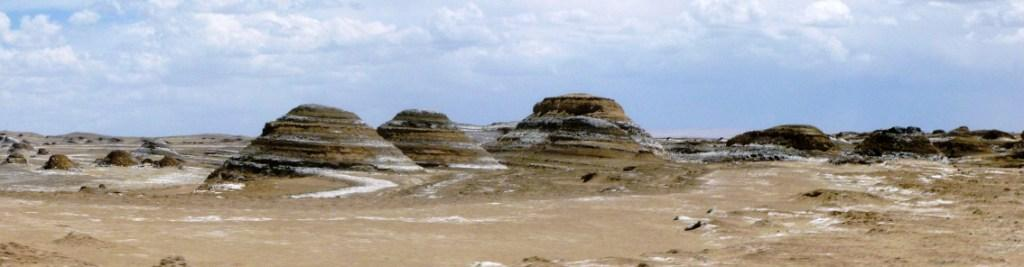 I took this photo on a recent trip across the Tsaidam Desert in Qinghai Province, China.